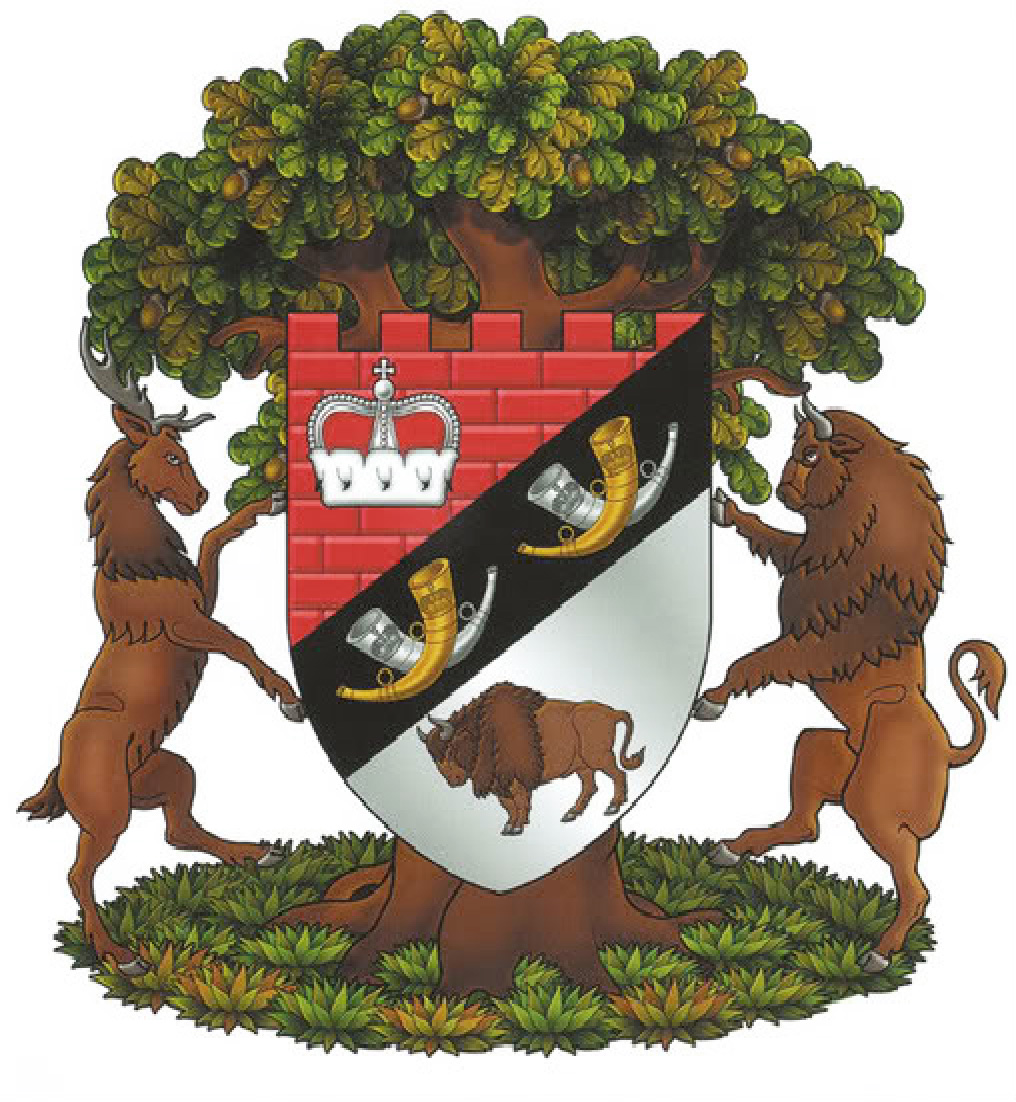 Coat of arms of the NP Belovezhskaya Pushcha in Belarus